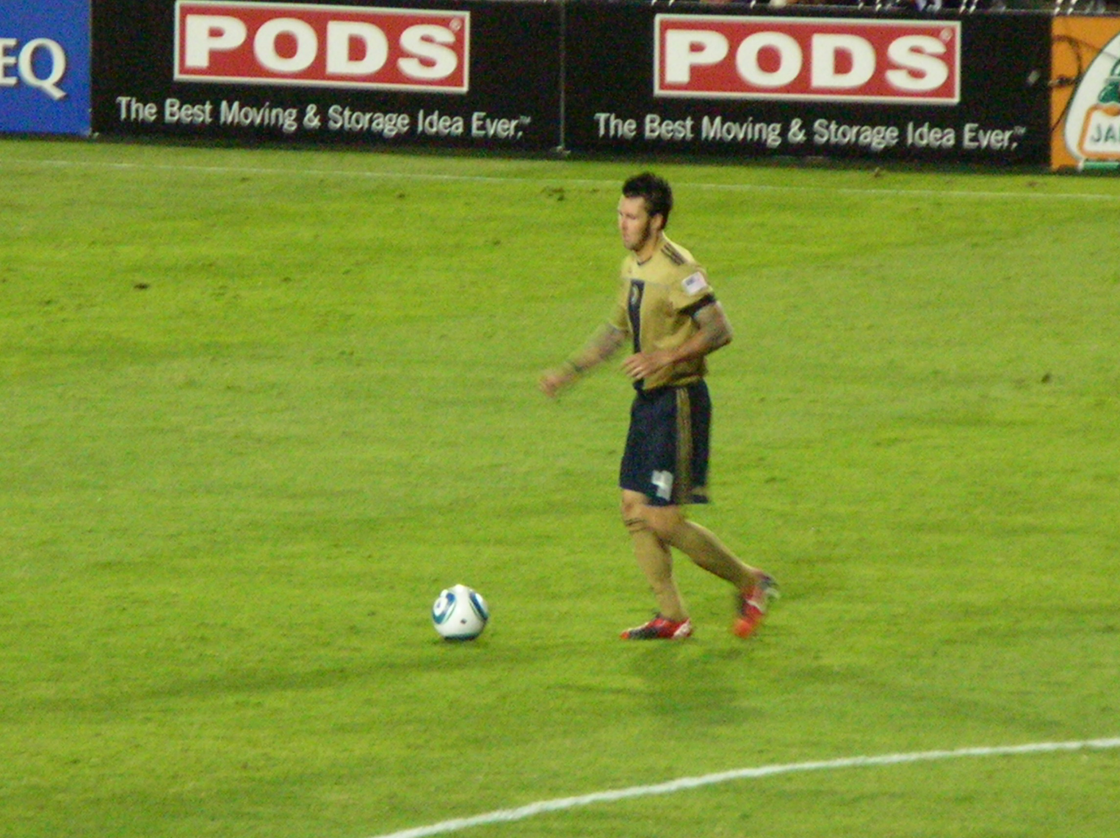 Philadelphia Union defender Danny Califf at an away game against the San Jose Earthquakes. The Earthquakes won 1-0.